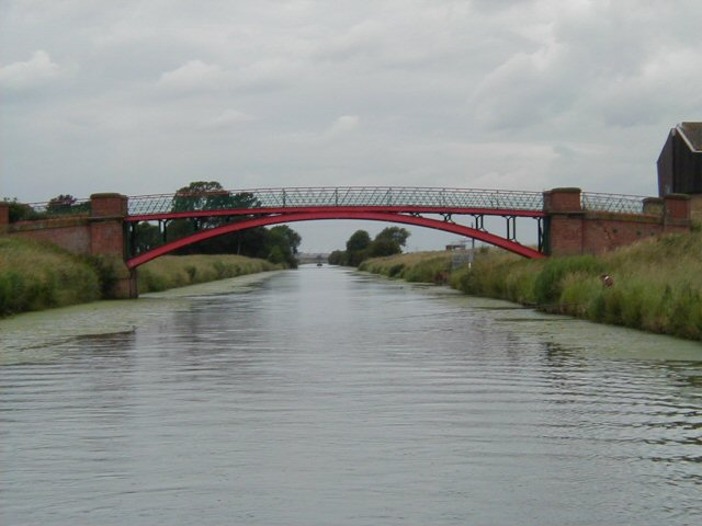 Cadney Bridge as seen from the River Ancholme, Lincolnshire.